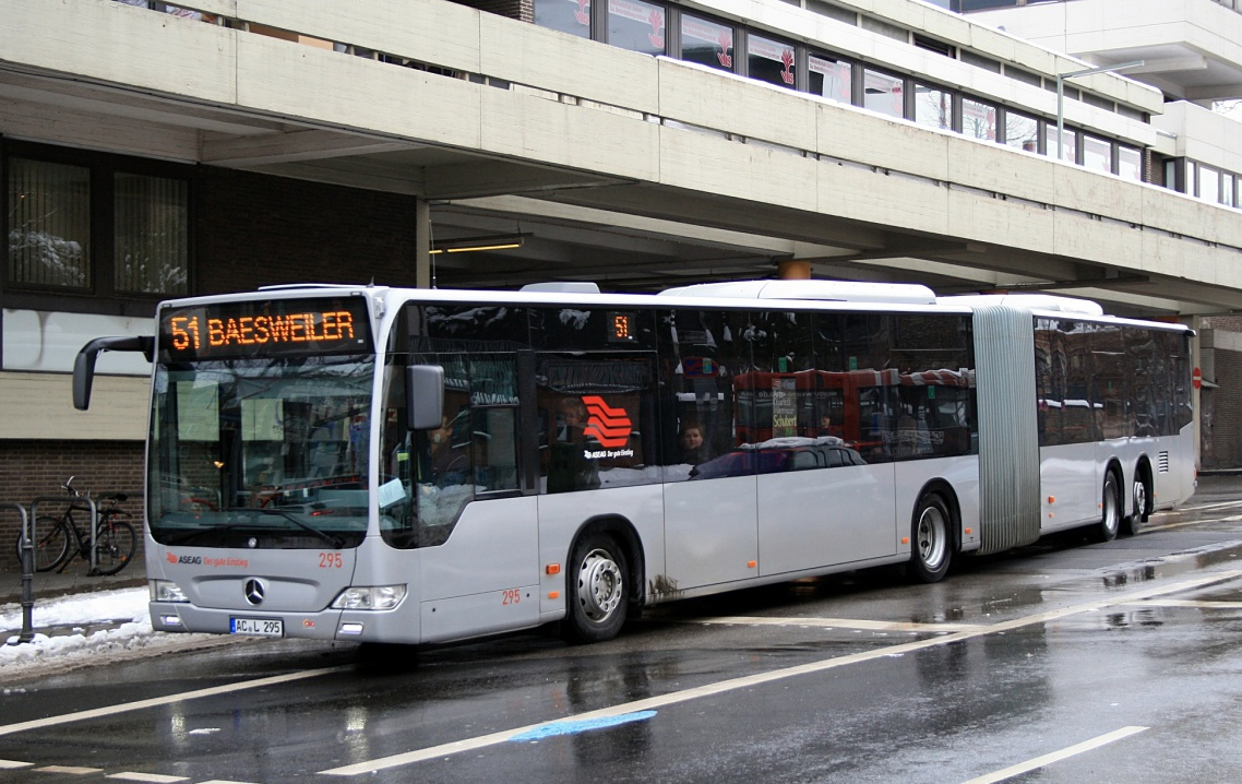 ASEAG 295 near Aachen, Bushof. Mercedes-Benz O530 GL CapaCity bus (AC-L 295) in Aachen, Germany. Built 2010, Aachener Straßenbahn und Energieversorgungs AG (ASEAG) operator.